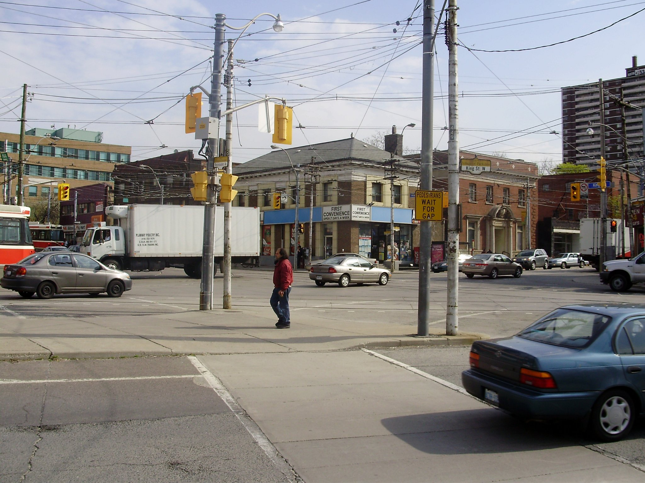 The intersection of King Street West, Queen Street West, and Roncesvalles Avenue in Toronto, Ontario.